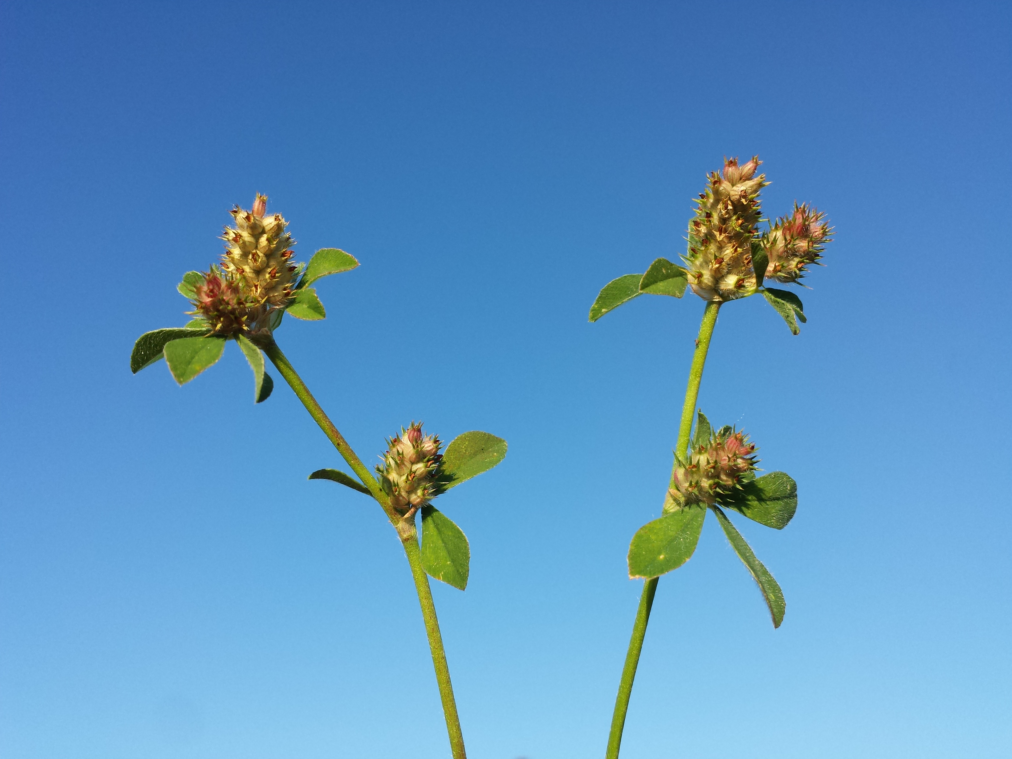 Inflorescences Taxonym: Trifolium striatum ss Fischer et al. EfÖLS 2008 ISBN 978-3-85474-187-9 Location: Korneuburg rail station, district Korneuburg, Lower Austria - ca. 170 m a.s.l. Habitat: ruderal meadows